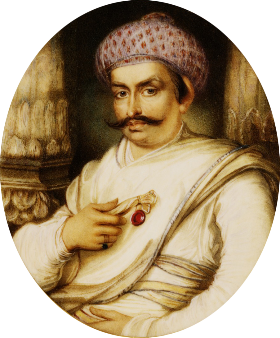 Portrait of Hyder Beg Khan, minister to Nawab of Awadh, Asaf-ud-Daula During the late 18th century a number of British artists--miniaturists, oil painters, watercolourists--went to India to work for the expatriate British community and local Indian dignitaries and royalty. Many, such as Ozias Humphry, believed that India would provide them not only with a better living than could be had in the crowded market of London, but indeed a fortune. Humphry resolved to go to India upon hearing that at that time there was no ‘tolerable miniature painter’there. The East India Company granted him permission to travel and to paint miniatures on the boat over to cover his costs. But Humphry's experience of India proved to be a bitter one, culminating in his suing the crew for lost earnings on his voyage home, only three years later, when his cabin was too small for him to use as a studio. The fact was that the expatriate community certainly wanted their miniatures painted--there was much exchange of letters and miniatures on the mail ships that went back and forth. But the richest patrons, the Indian princes, were remiss in paying for the work. One nawab owed Humphry for seven months work, but since he also owed the East India Company money, the company's claim was put first. The work is inscribed on the back of the ivory, probably in the artist's hand, "Hyder Beg Khan / the minister of [...] Asoph ul Dowlah / 1786 / Lucknow" (The current spelling is 'Asaf-Au-Daula').